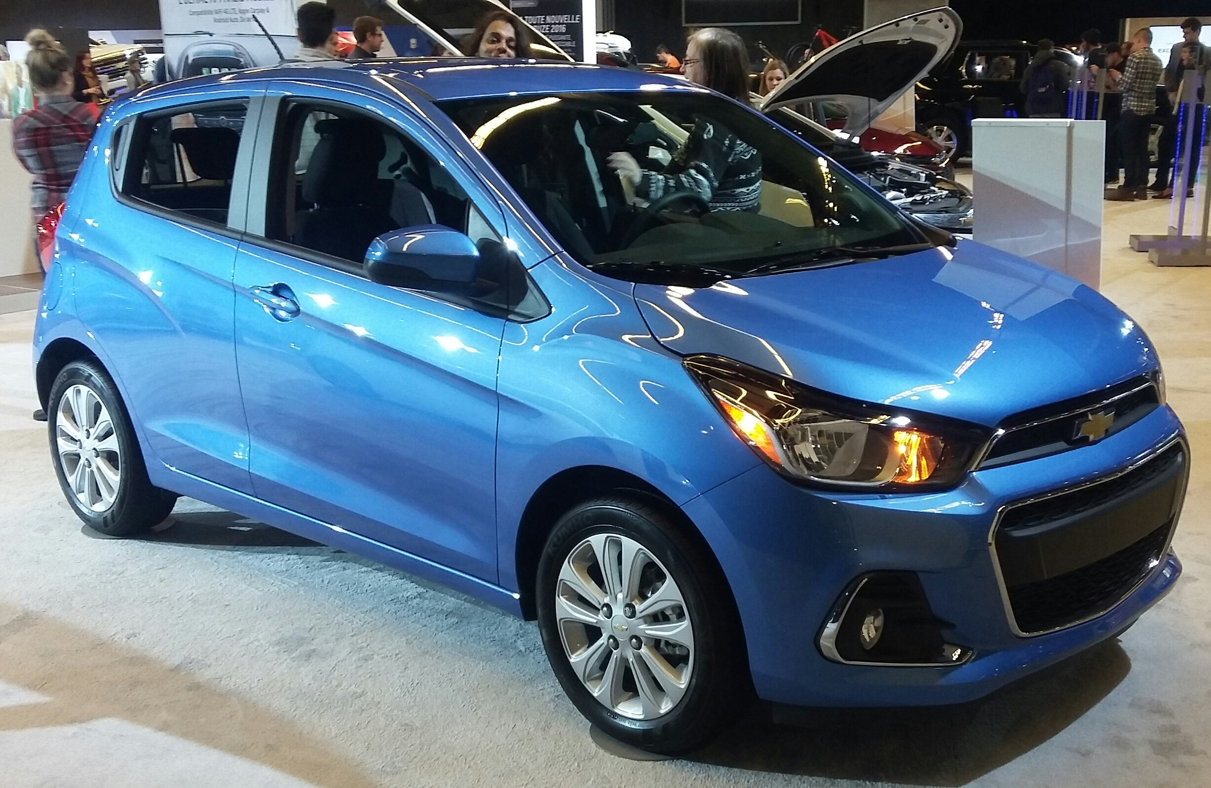 2016 Chevrolet Spark photographed in Montréal , Québec, Canada at the 2016 Montréal International Auto Show .